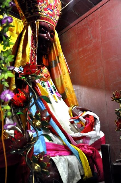 Goddess of Thunder statue. Located in Phi Tướng Buddhist Temple, Thuan Thanh, Bac Ninh, Viet Nam